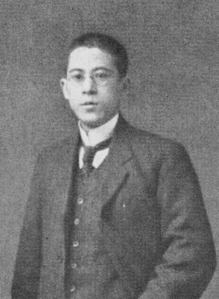 Masatora Koike